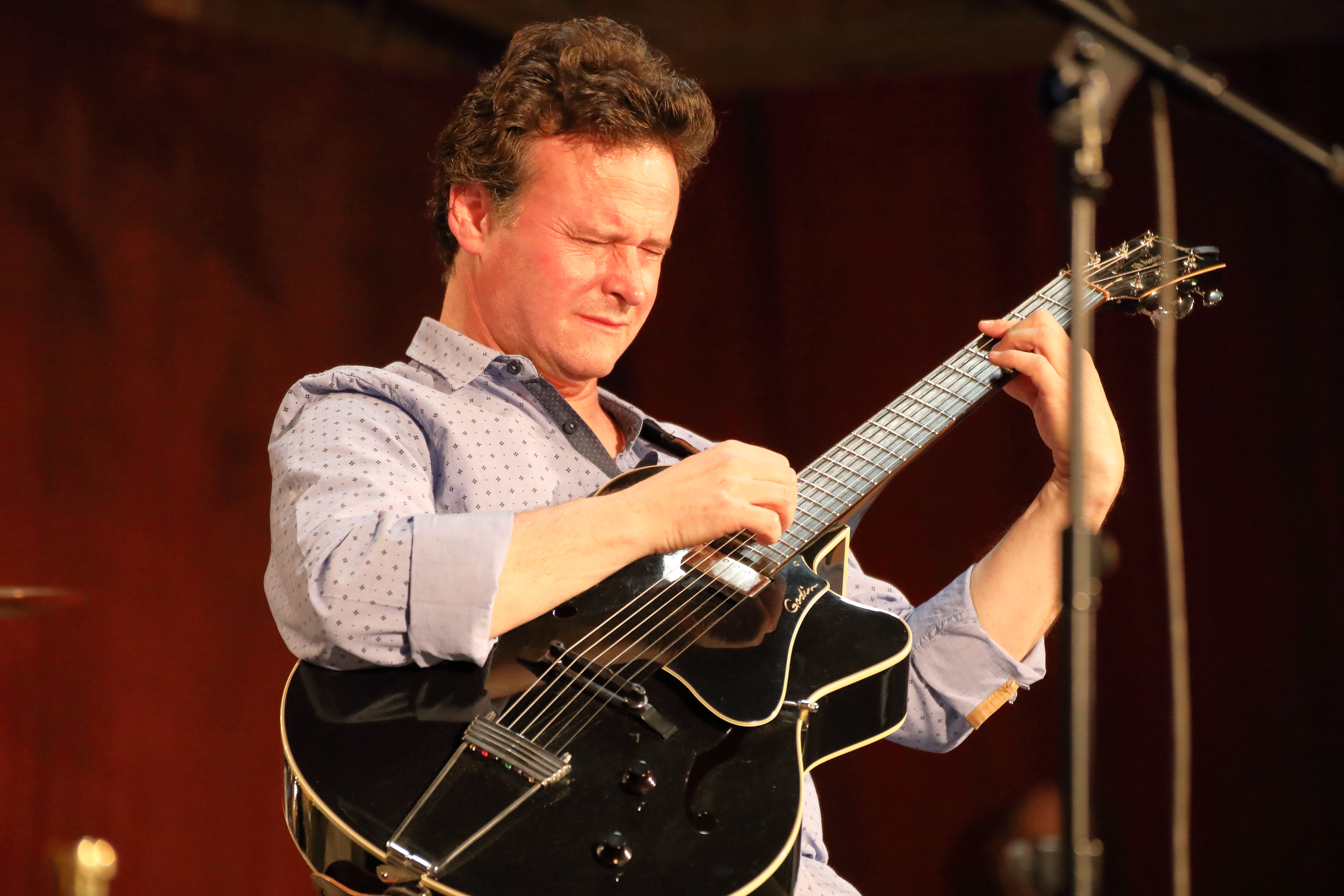 French duo Sylvain Luc (g) & Stéphane Belmondo (tr) at INNtöne Jazzfestival 2019.